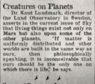 Astronomer Knut Lundmark quoted in Christian Science Monitor, Boston, Thursday, October 27, 1938. His statement on extraterrestrial bacterias being stretched to "creatures".